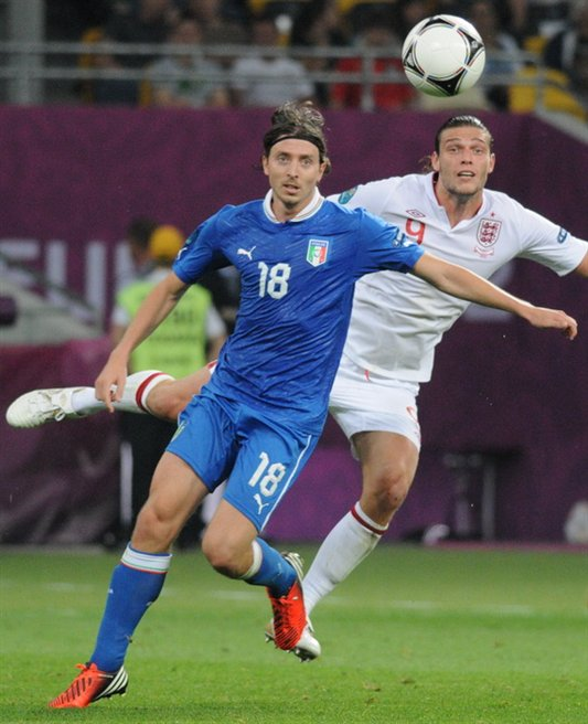 Riccardo Montolivo and Andy Carroll at Euro 2012 match England-Italy